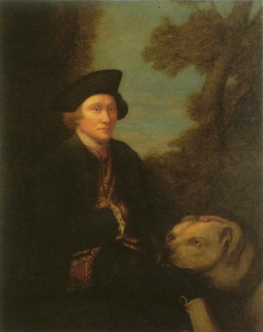 Portrait of John Hunter. Oil on canvas by Dorofield Hardy, a copy of the original by Robert Home now in the Royal Society, c. 1770.